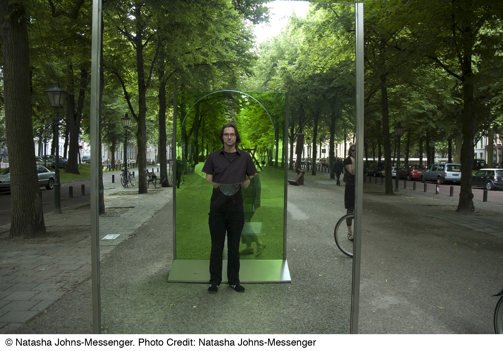 Natasha Johns-Messenger, Through to You, The Hague Sculpture, FREEDOM, Den Haag, The Netherlands, Curated by Marie Jeanne De Rooij